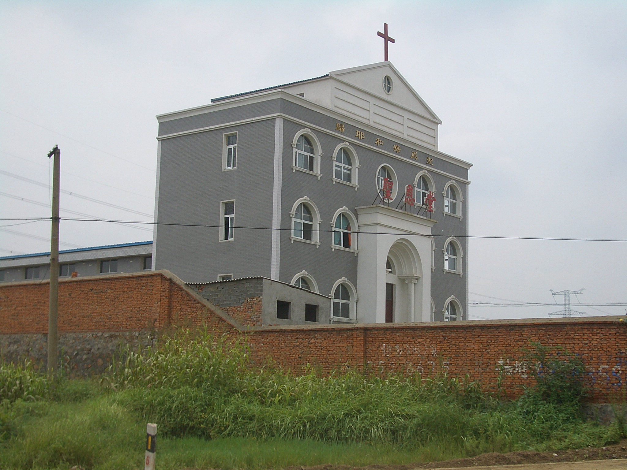 A chcurch on the north-western outskirts of Daye, Hubei